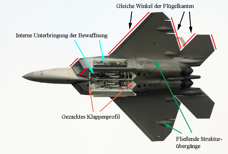 F-22 stealth features (german)